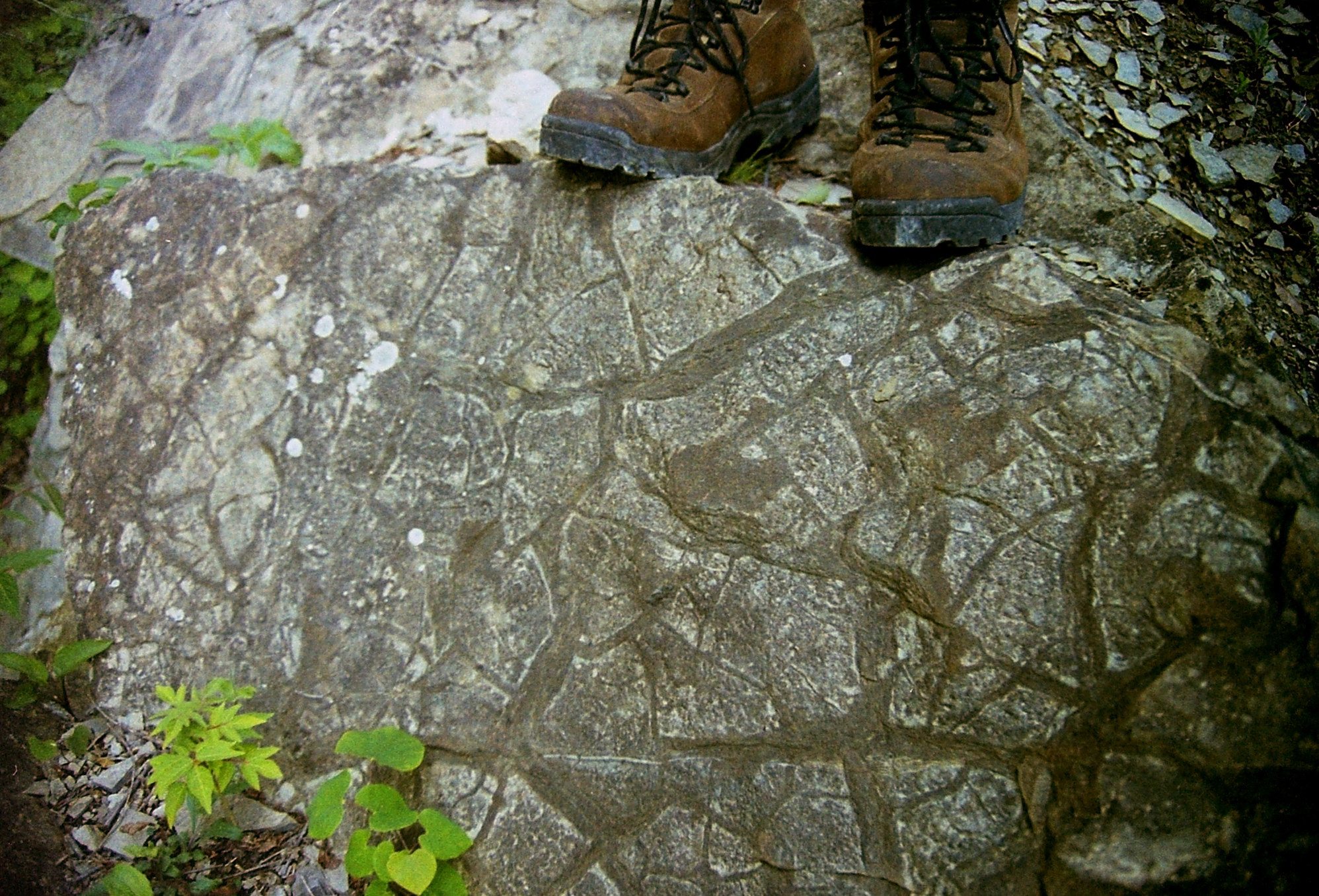 Mudcracks at Roundtop Hill, near Hancock, Maryland. Silurian, probably Wills Creek Formation.